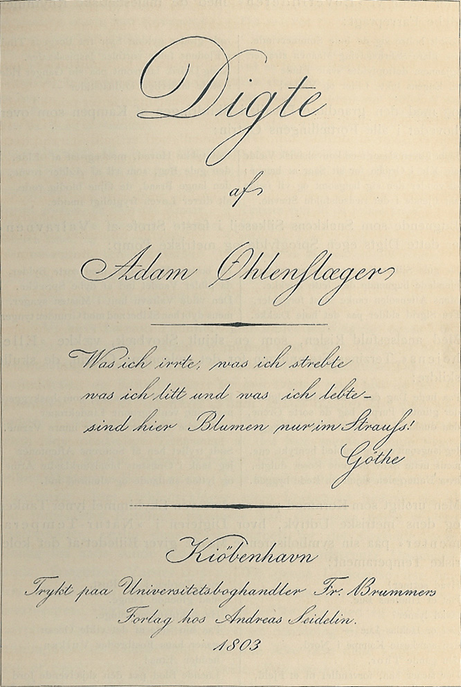 Titelbladet til Oehlenschlägers romantiske gennembrudsværk "Digte 1803" (1802). The titlepage of the collection of romantic poems "Digte 1803" ("Poems 1803", published 1802) that made Oehlenschläger famous in Denmark.